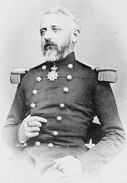 French general Félix Charles Douay (1816-1879)